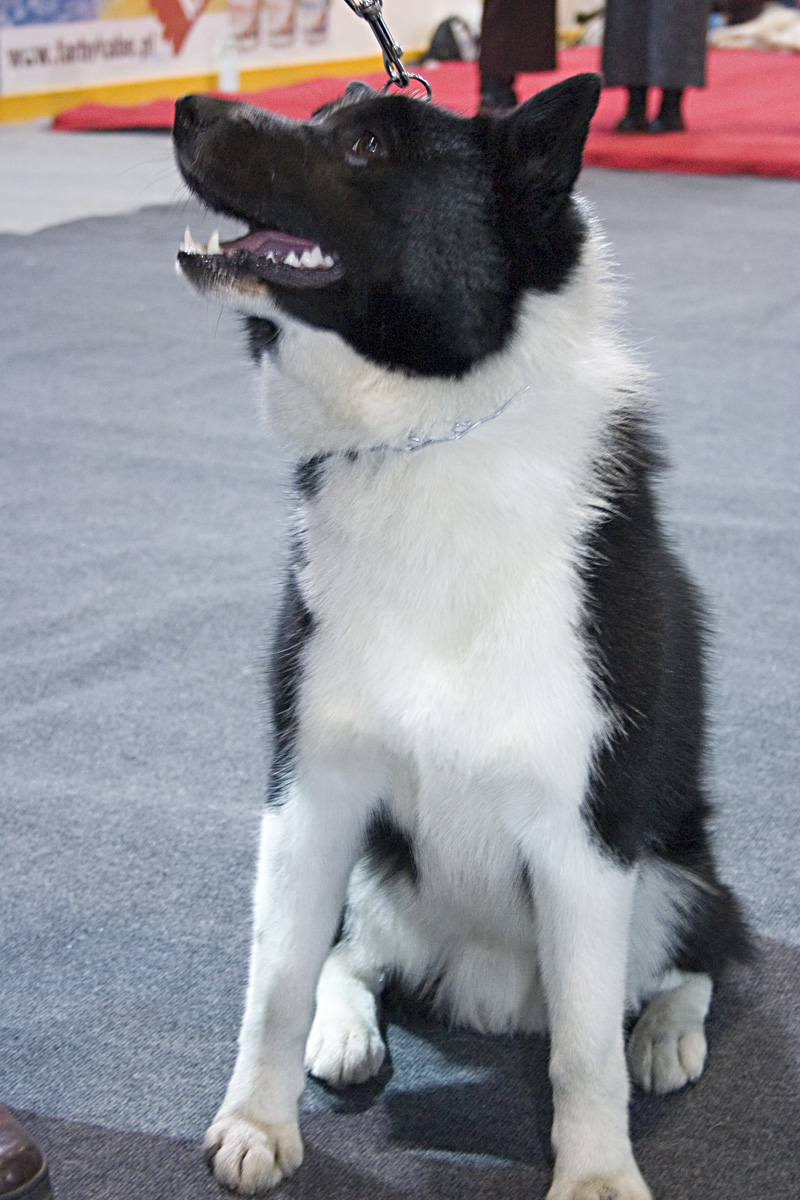 Russo-European Laika male on Dog Show in Katowice, 2006